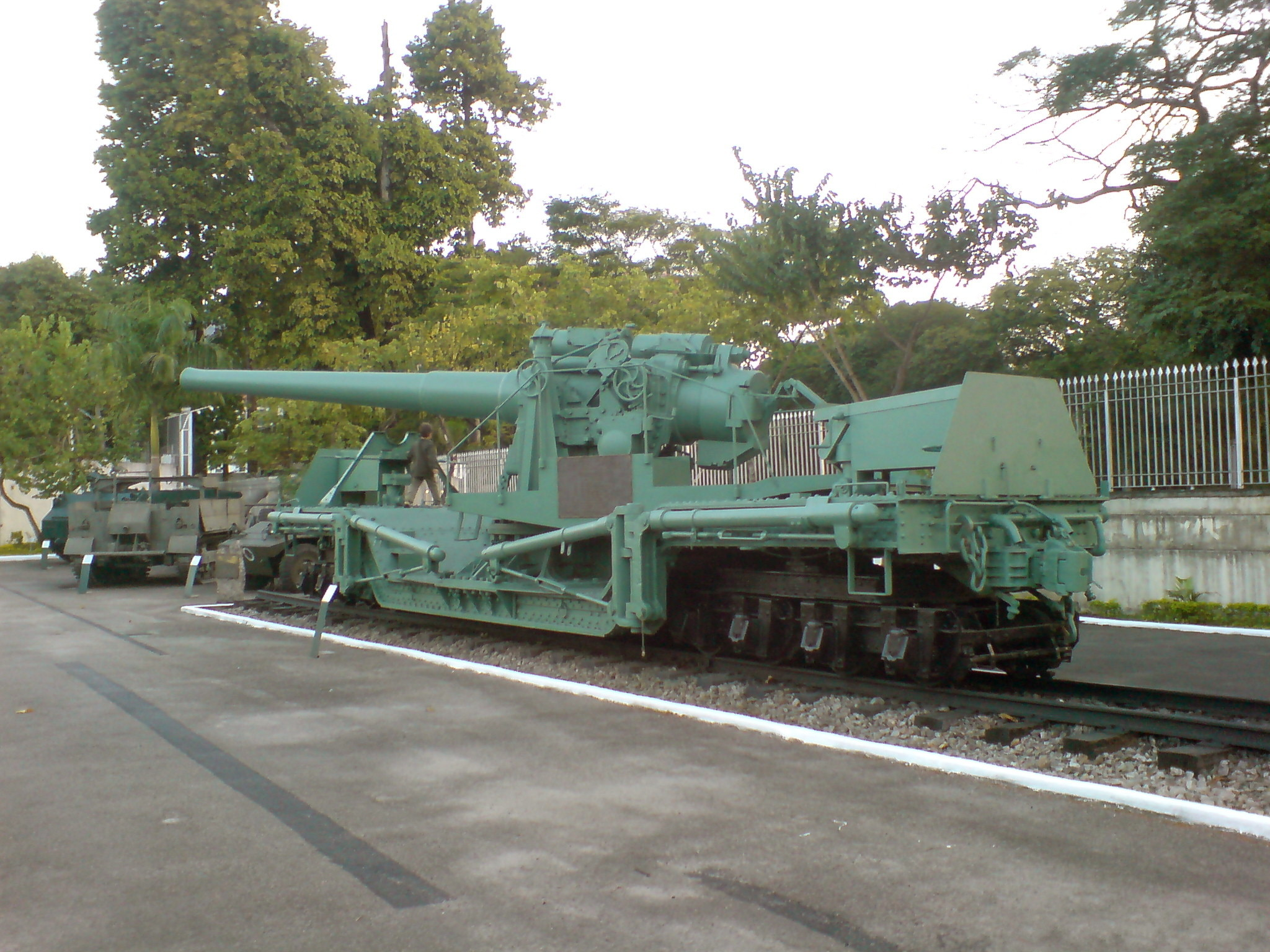 The last surviving Bethlehem Steel 177 mm (7 inch) railway gun bought in 1941 by the brazilian army for coastal defence, is now on display at Museu Militar Conde de Linhares in Rio de Janeiro, Brazil.